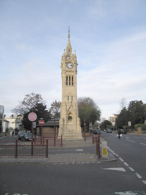 Clock Tower